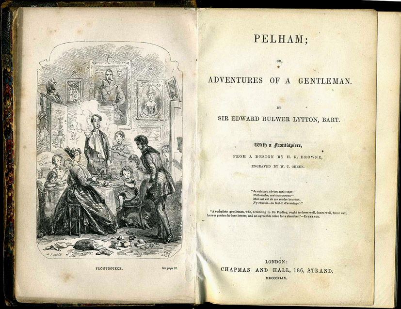 Title page and frontis by Hablot K Browne of 'Pelham'